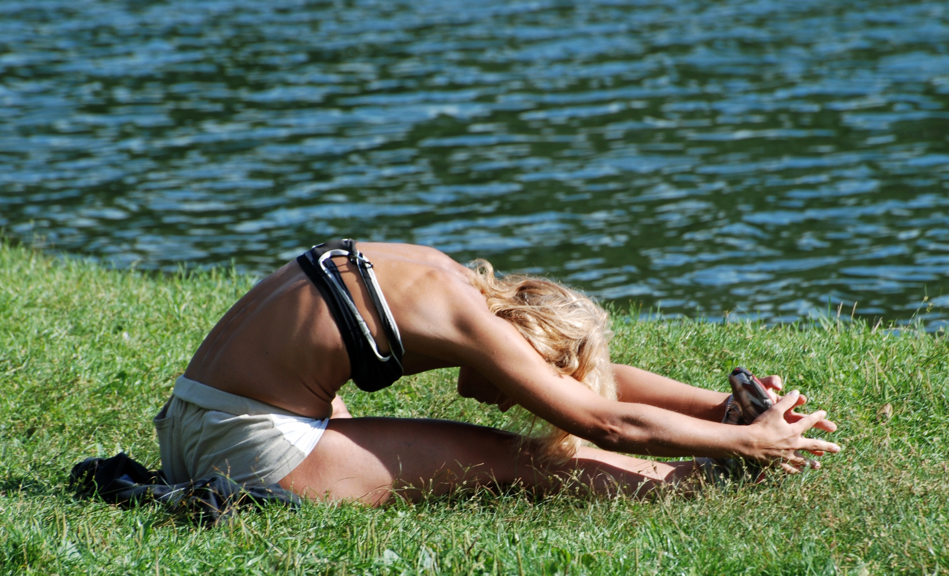 Woman doing Yoga in Moscow, Russia.